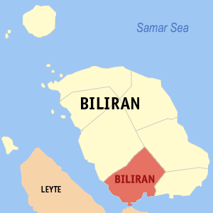 Map of Biliran showing the location of Biliran